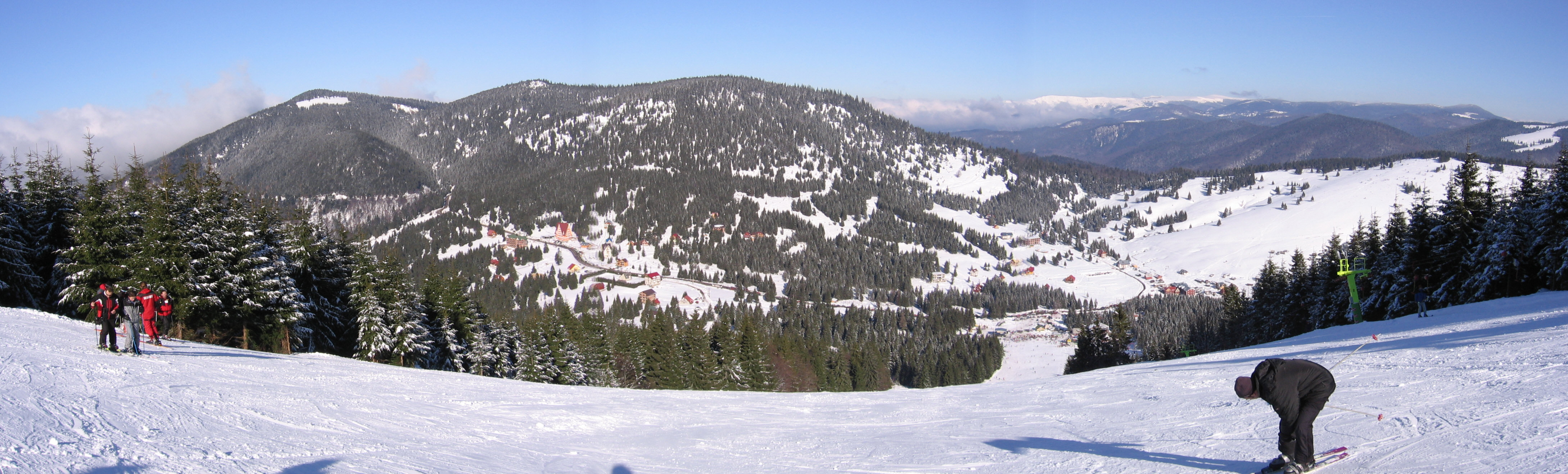 View from Vârtop skiresort in Arieşeni - Romania over Vârtop Pass And Bihor Mountains